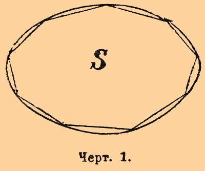 Illustration from Brockhaus and Efron Encyclopedic Dictionary (1890—1907)